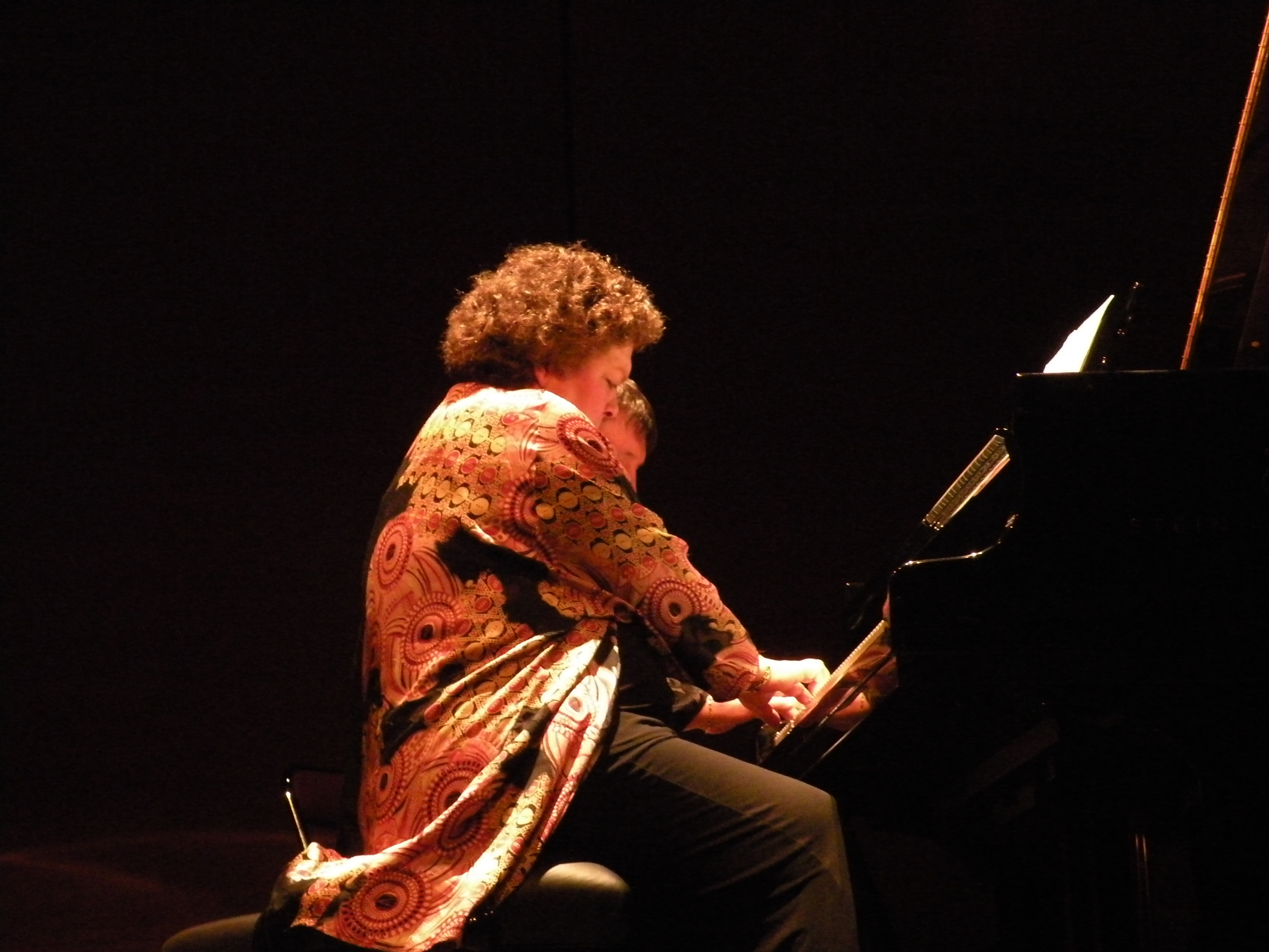 The french pianist Brigitte Engerer, on 30 January 2009 during La Folle Journée in Nantes.